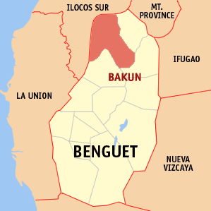 Map of Benguet showing the location of Bakun